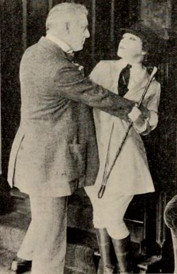 Still from the American drama film The Secret Code (1918) with J. Barney Sherry and Gloria Swanson, on page 30 of the September 14, 1918 Exhibitors Herald.